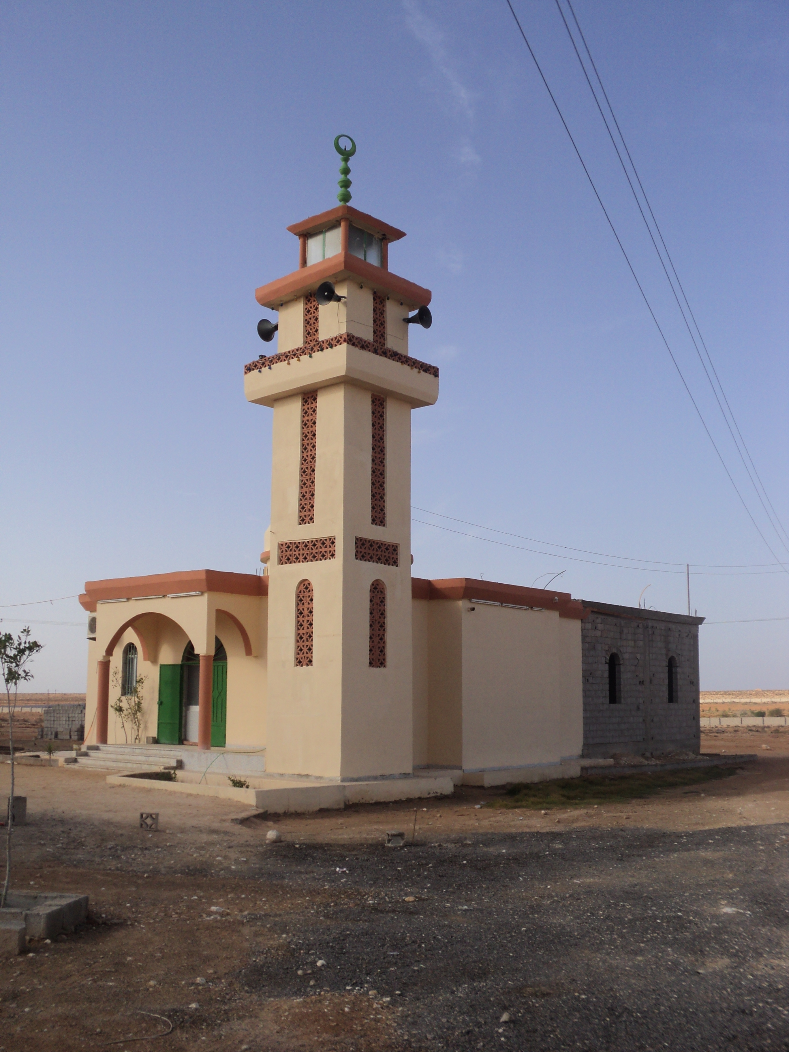 A mosque before the western gateway of Tobruk.